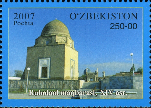 Stamps of Uzbekistan, 2007